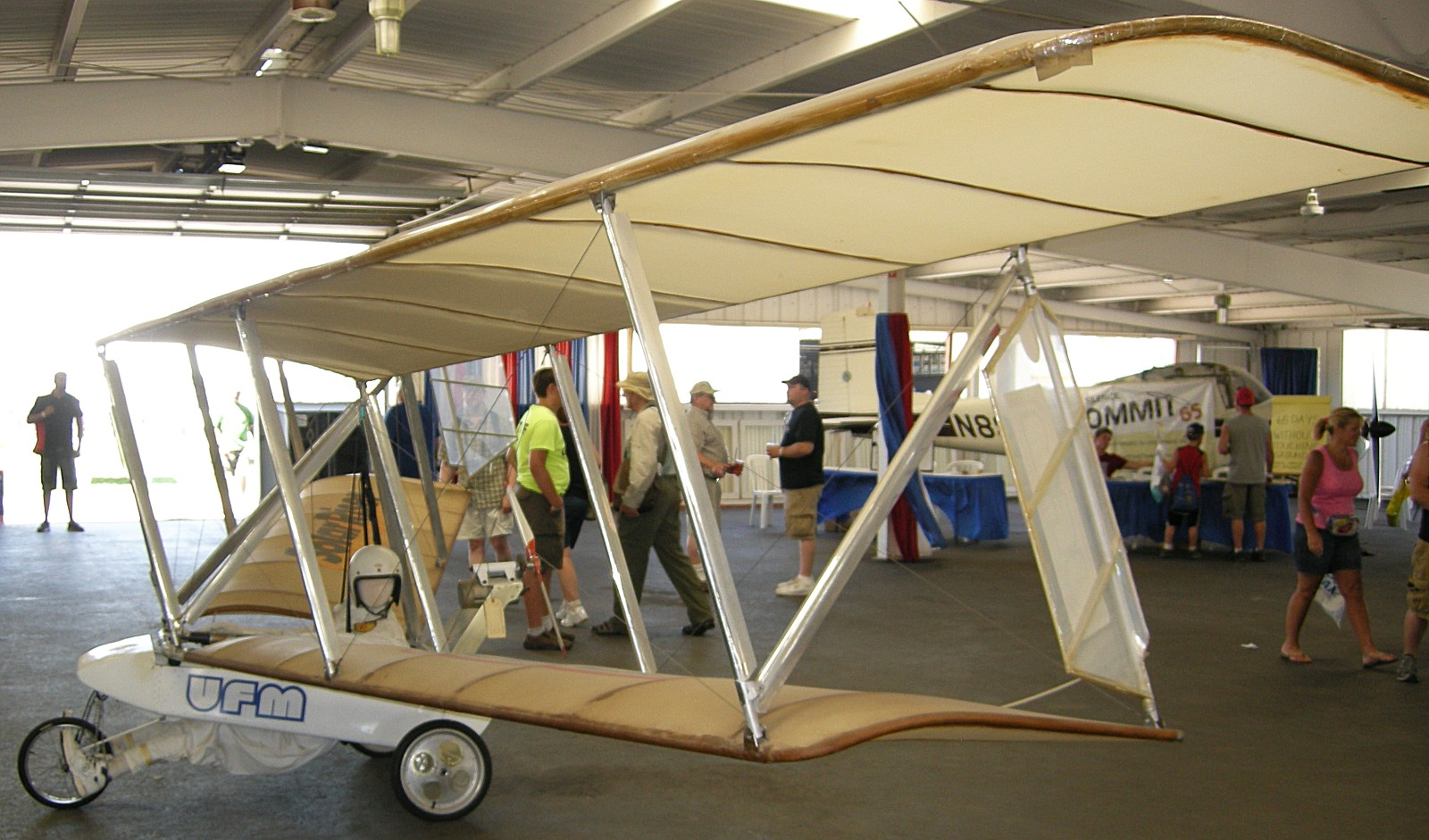 At EAA AirVenture, Oshkosh, Wisconsin, USA